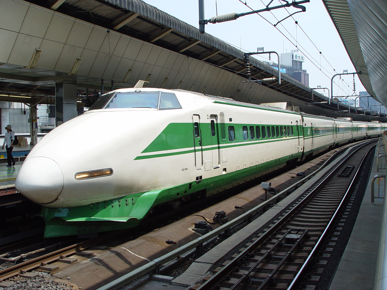 JR East 200 series shinkansen set H6 at Tokyo station on the Yamabiko 43 service